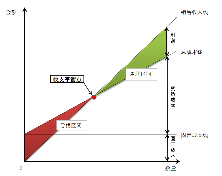 Chart for break-even point